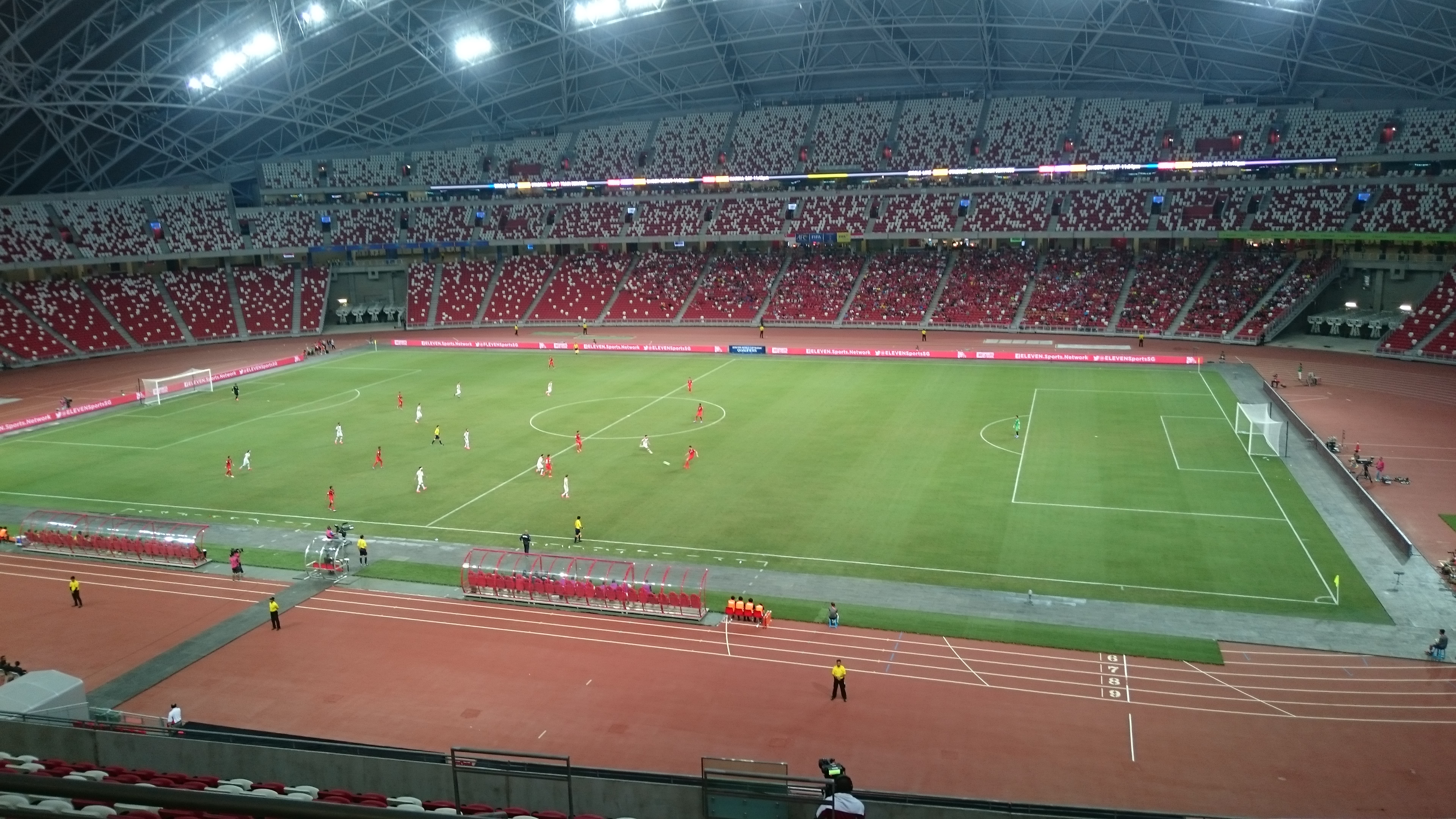 Football match between Singapore and Syria on 17th November 2015.